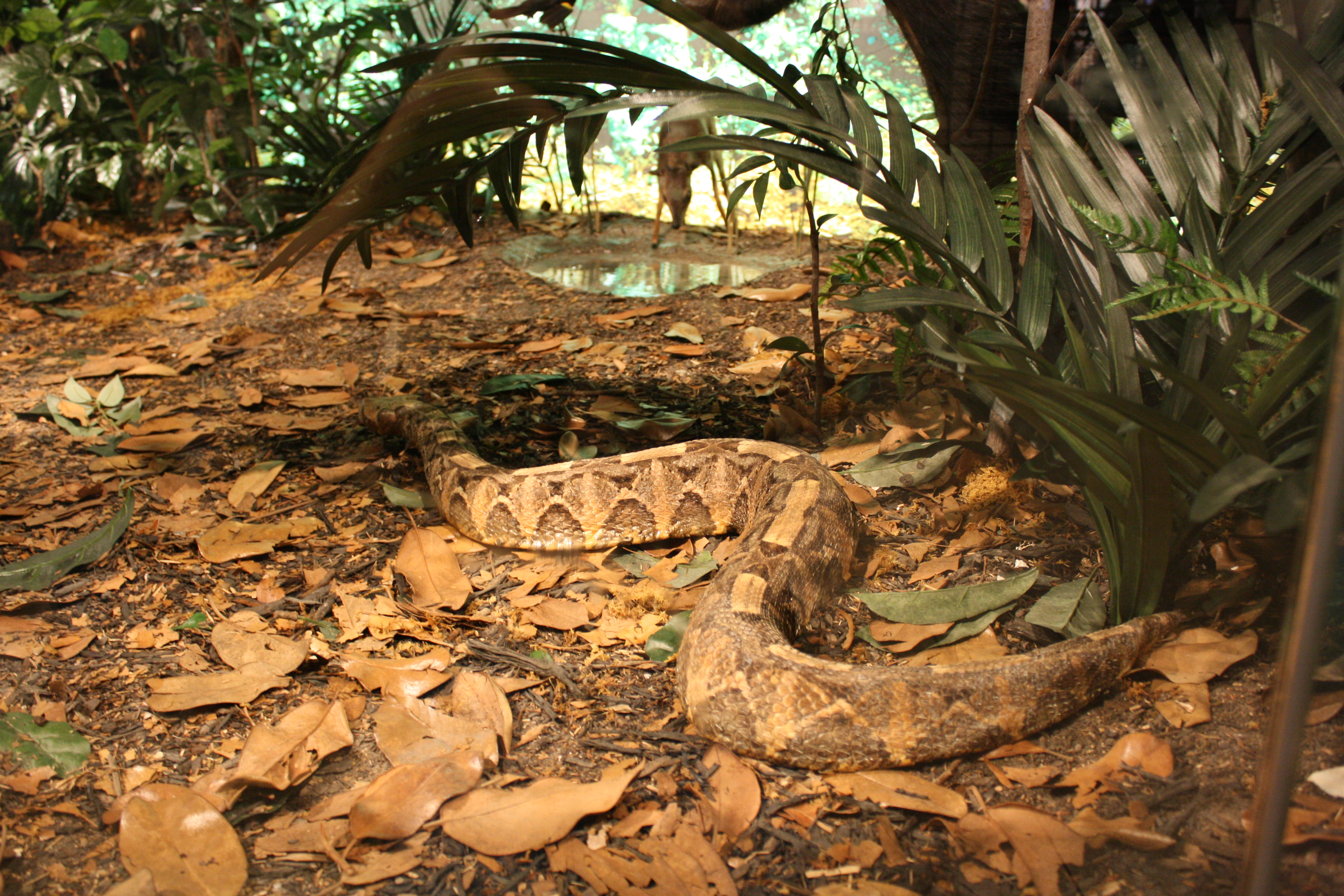 Gaboon Viper Biris gabonica Wikipedia Loves Art at the Houston Museum of Natural Science This photo of item # [1] at the Houston Museum of Natural Science was contributed under the team name "The_Wookies" as part of the Wikipedia Loves Art project in February 2009. Houston Museum of Natural Science The original photograph on Flickr was taken by andytang20—please add a comment to the original Flickr page whenever a use has been made on Wikipedia or another project. Project galleries on Flickr: this institution, this team